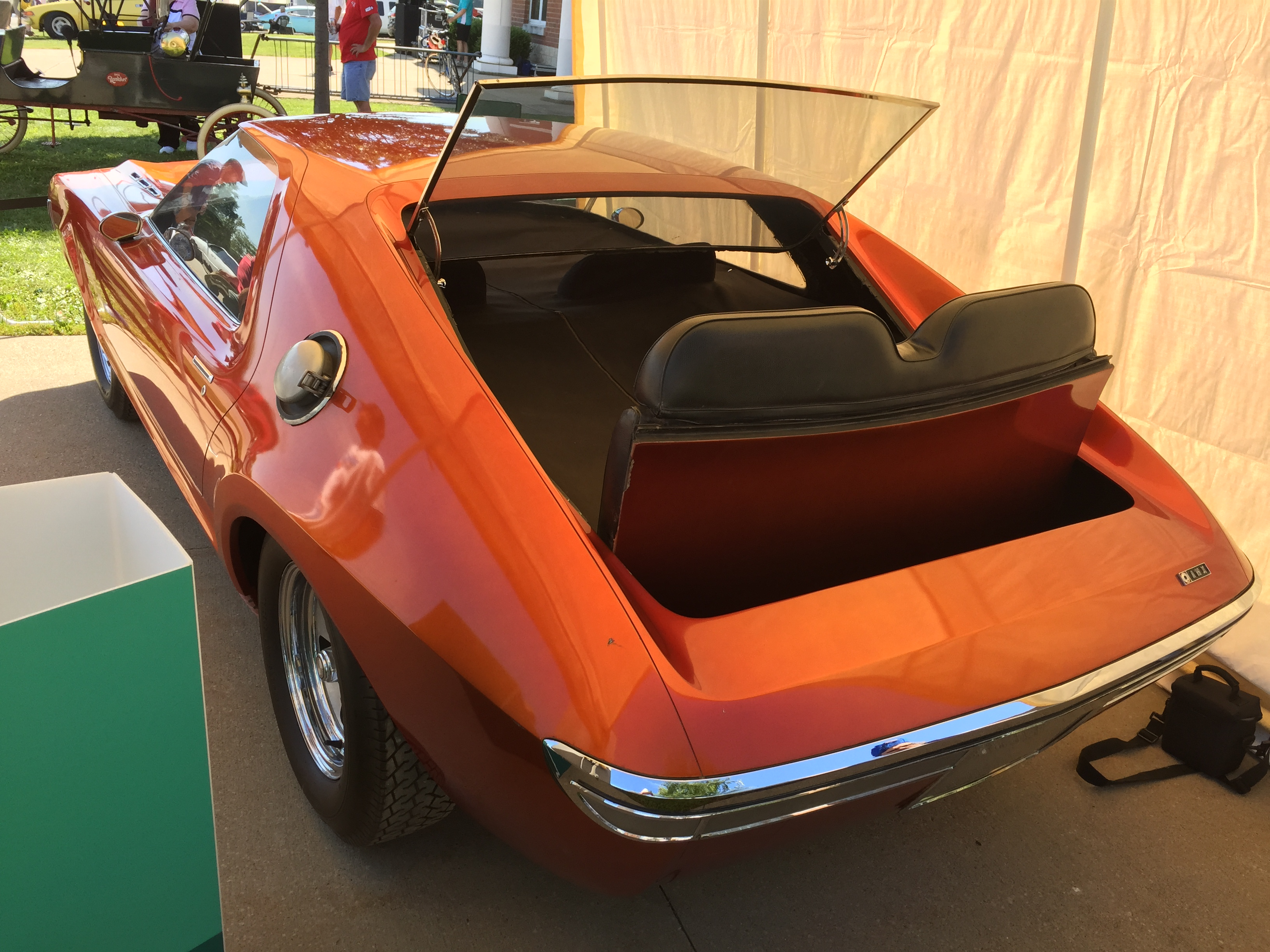 1966 AMC AMX Prototype designed by American Motors Corporation (AMC). This was the first "AMX" (American Motors Experimental) named car. This is a full-sized model of a concept car that features AMC's "Ramble Seat" (a version of the old rumble seat and named (in homage to the automaker's Rambler models) for two additional passengers in this two-seat sports car design. It also has no "A" pillars providing for greater visibility. This prototype "pushmobile" has a fiberglass body with no interior, engine, drivetrain, suspension, etc. It was built and displayed at the 1966 Society of Automotive Engineers (SAE) conference in Detroit, Michigan. This concept design was widely covered by the automotive media in 1966. It appeared on several auto magazine covers. It was also painted in a metallic blue. The back seat fords into the trunk space and the rear window flips down. However, these are not fully weatherproofed designs. Positive response to this design was followed by Richard A. Teague, the Vice President of Design at AMC, to build an operational show car. Picture taken at the car show on Saturday, July 25, 2015, during the American Motors Owners Association (AMO) annual convention that was held near Cleveland, Ohio.